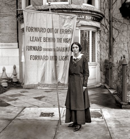 A woman holding a banner in memory of Inez Milholland, a lawyer who became a martyr to the suffrage movement.